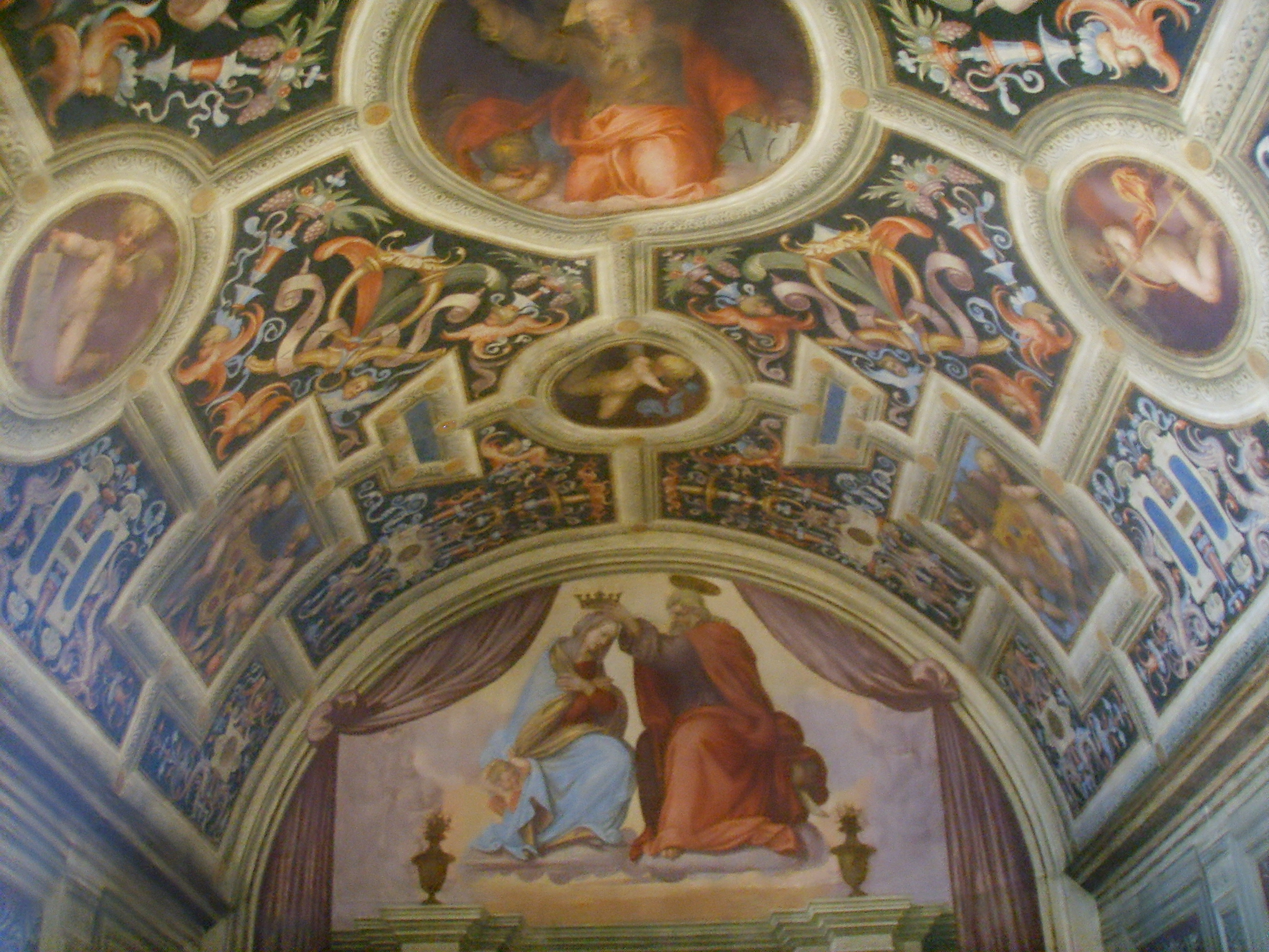 Cappella dei Papi in Santa Maria Novella church fresco Assumption of the Virgin by Ridolfo del Ghirlandaio in Florence, Italy